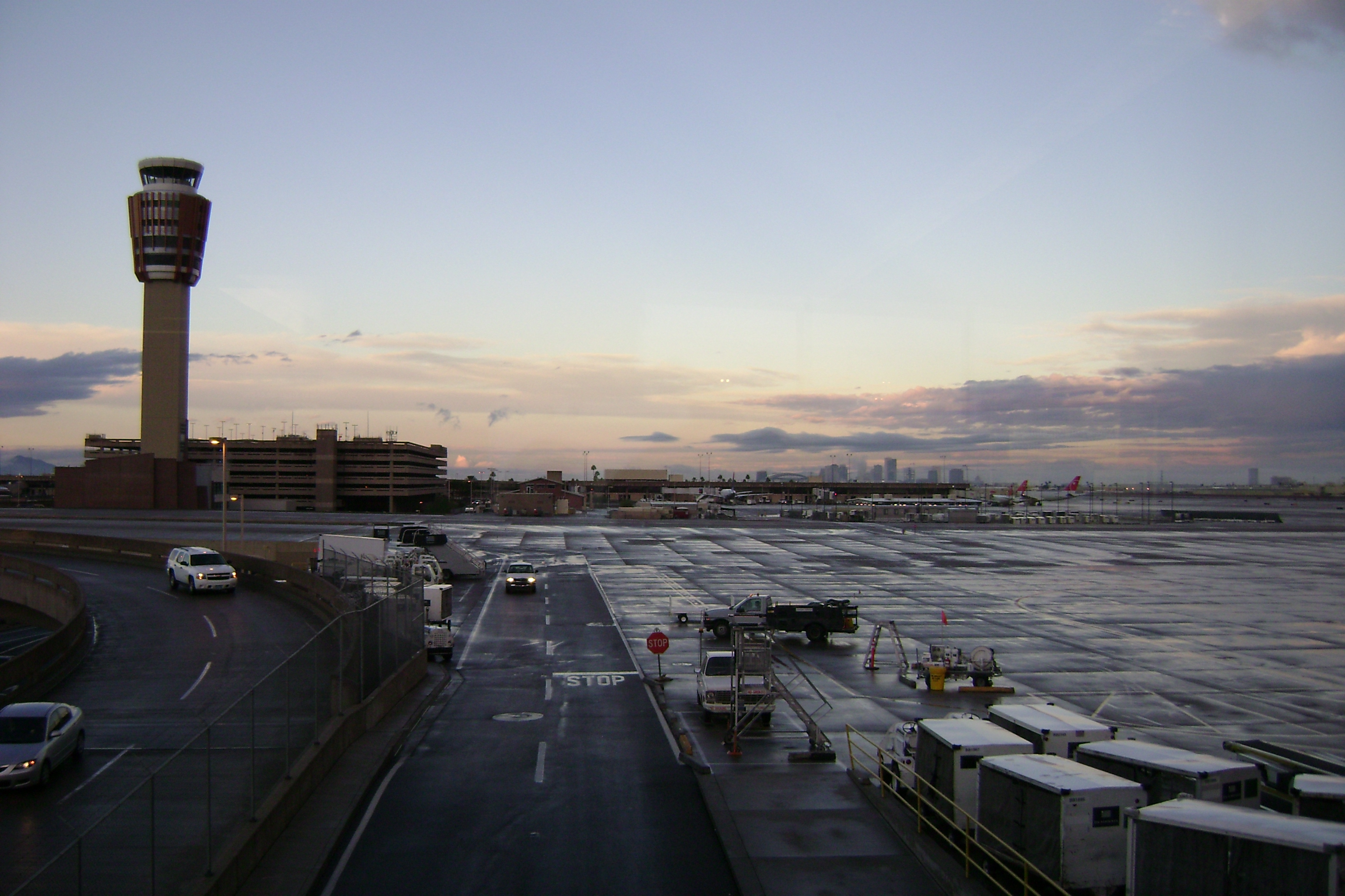 A photograph of Terminal 3 at Phoenix Sky Harbor Airport. Taken from Terminal 4. Phoenix skyline can be seen in the distance.